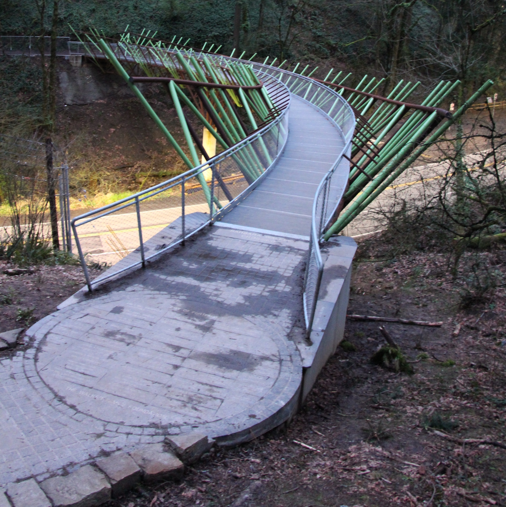 Barbara Walker Crossing pedestrian bridge looking towards south from the north end